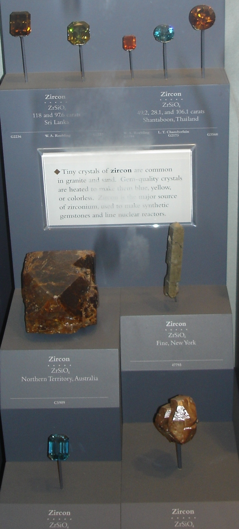 Cropped from a picture I took on my senior trip